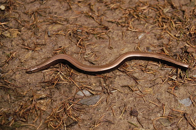 Anguis fragilis from Commanster, Belgian High Ardennes (50°15'20``N,5°59'58``E)